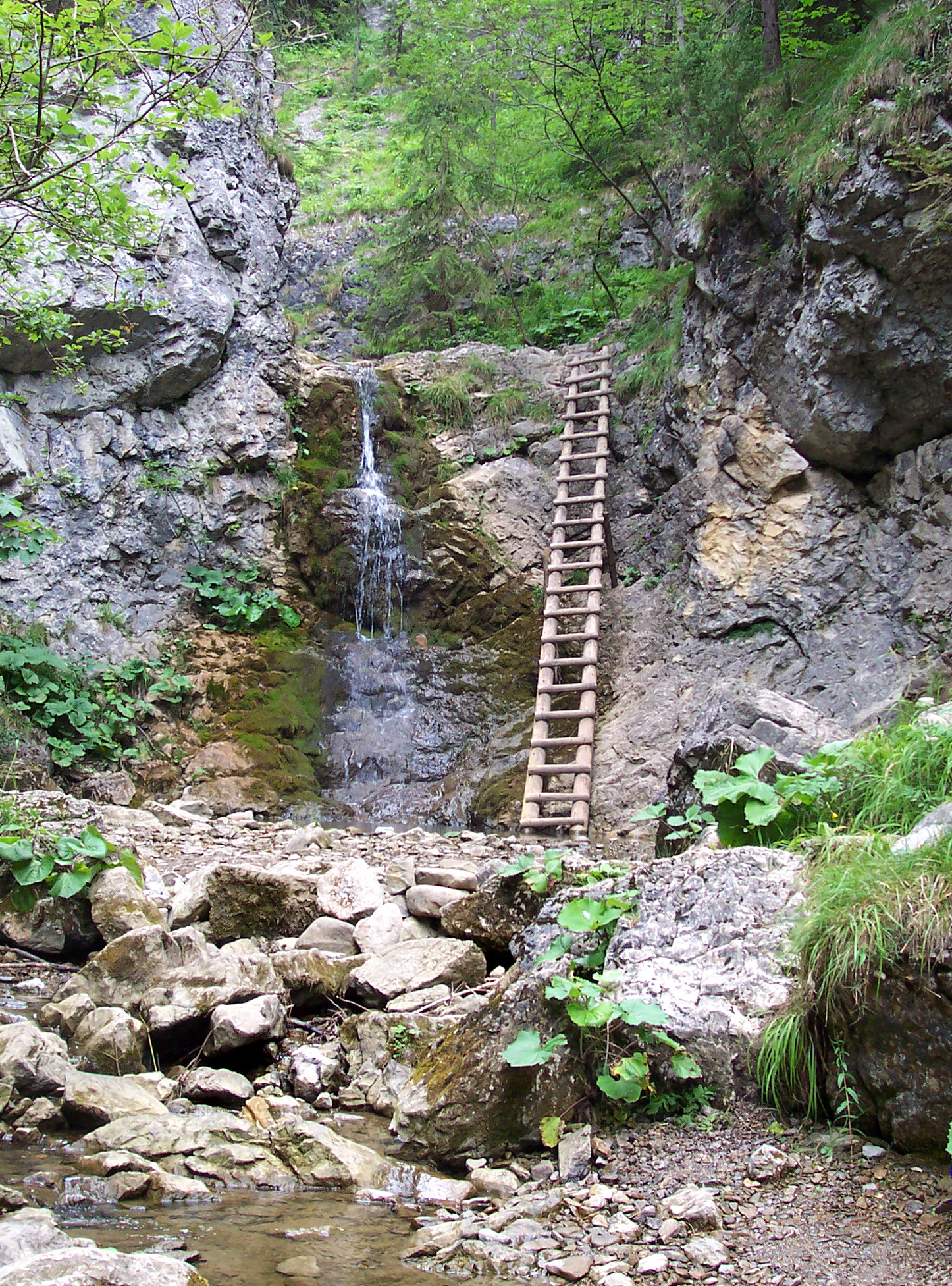 Waterfall in Kvačianská valley. Orava, Slovakia